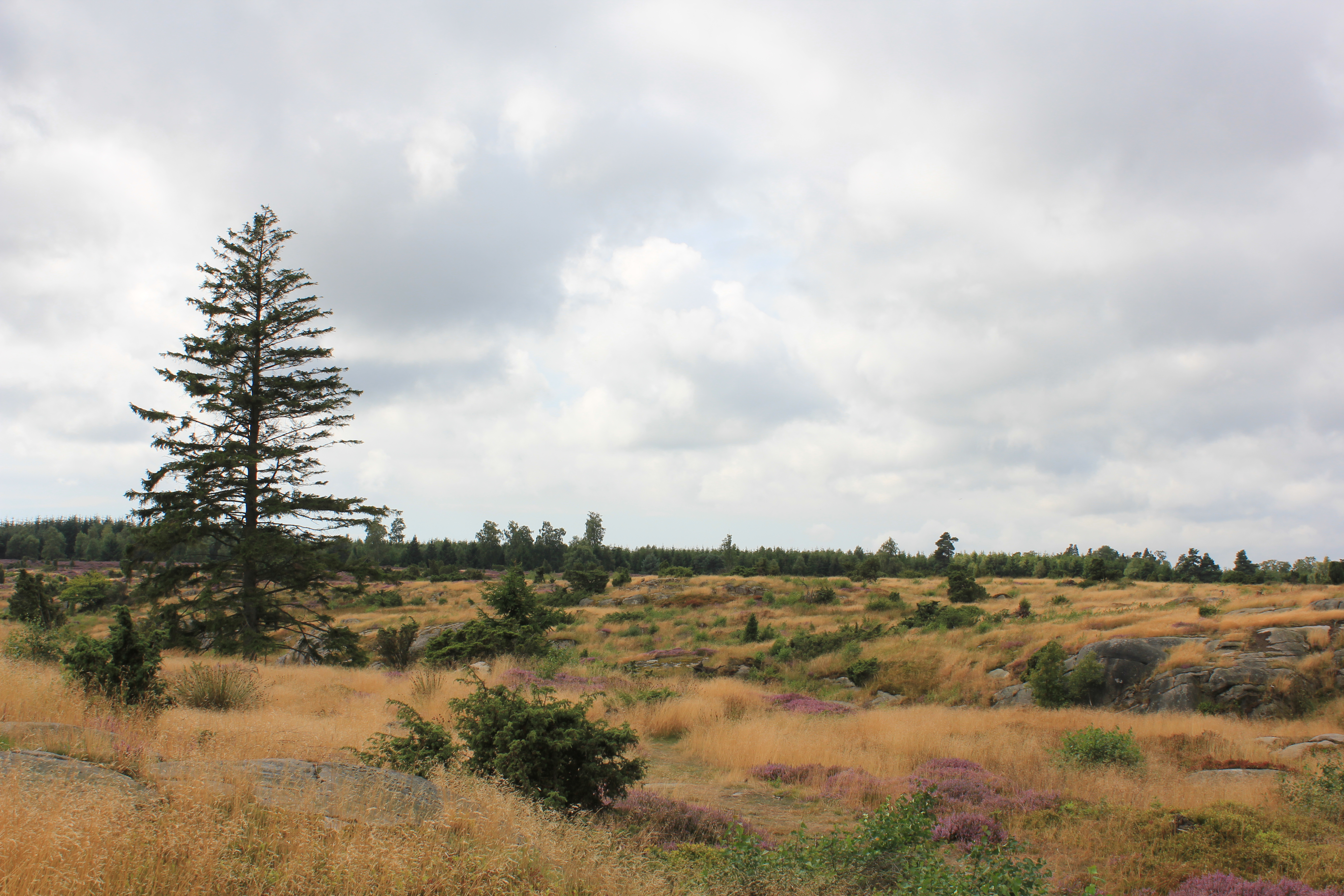 Paradisbakkerne, a forrest on Bornholm, Denmark